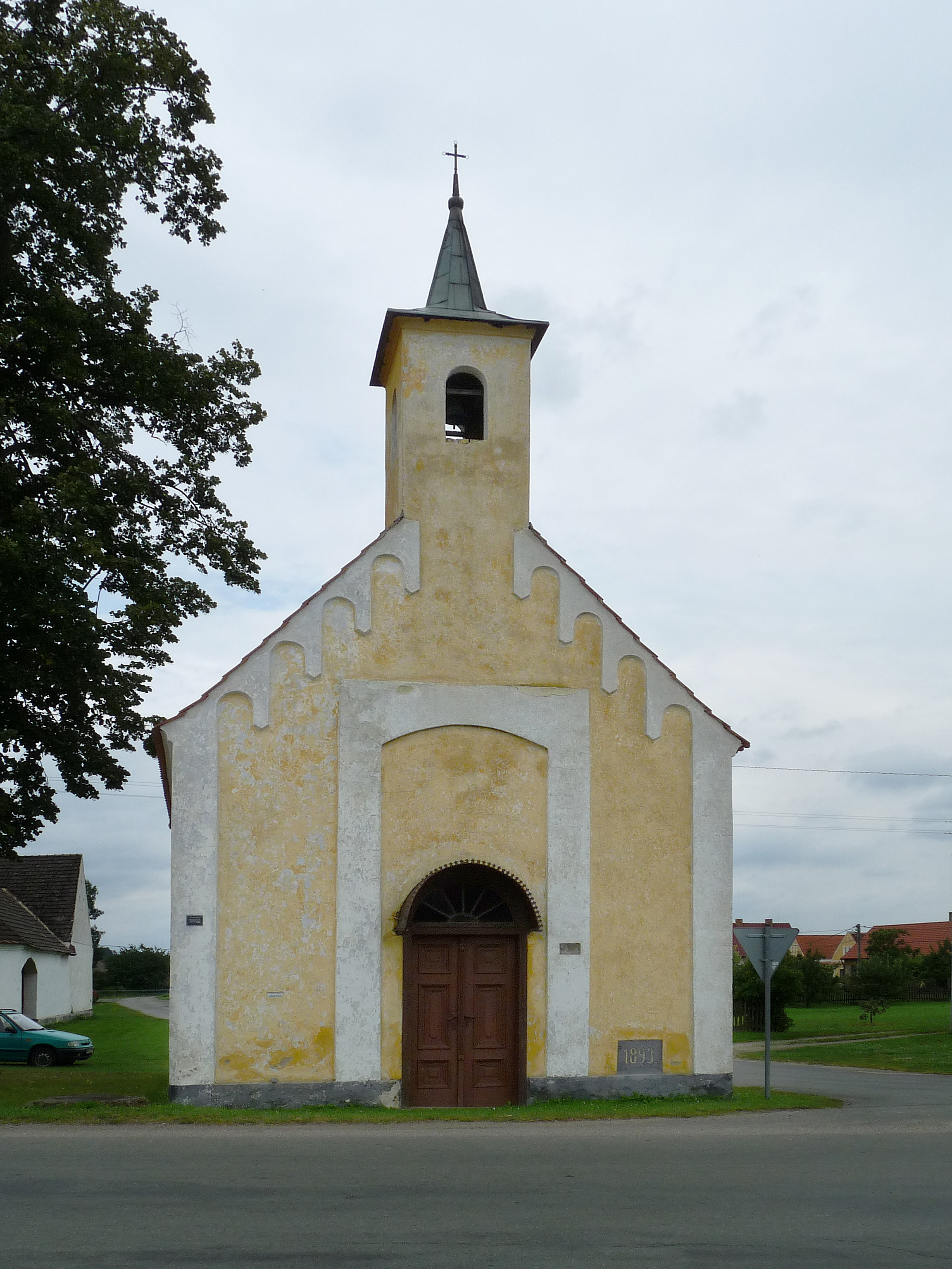 Chapel1 in Vlastiboř, Tábor district, Czech Republic, dated 1893